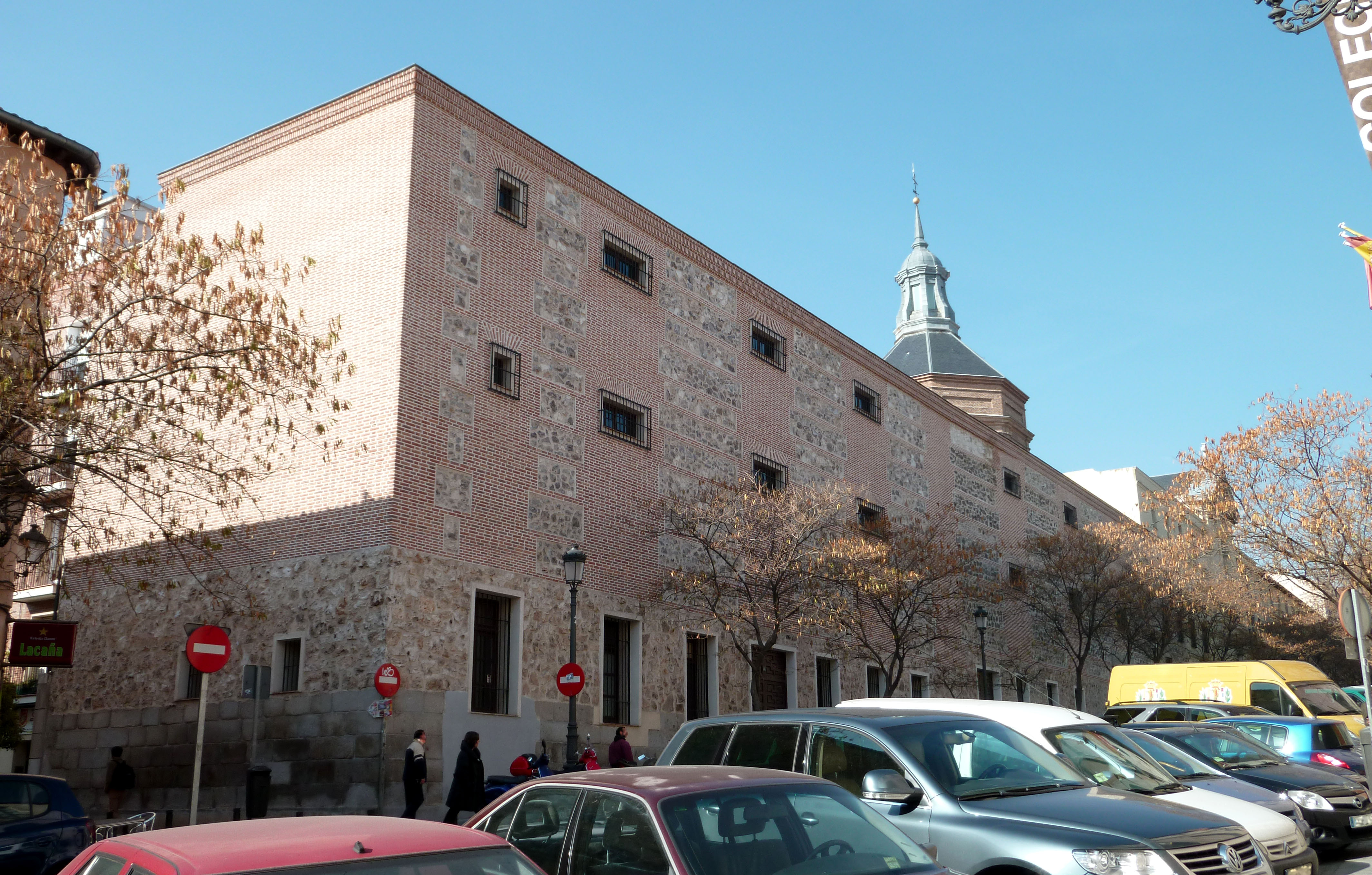 Façade of Real Monasterio de Santa Isabel (a convent), at 46-48 Calle de Santa Isabel (street) in Centro district in Madrid (Spain). Original building was made between 1560 and 1570. Church was projected by Juan Gómez de Mora and built between 1640 and 1665.